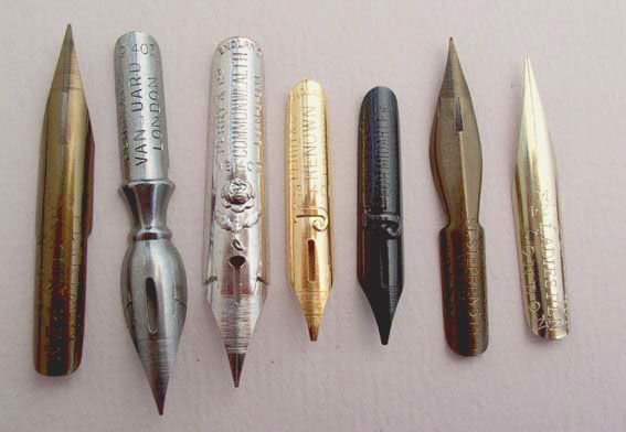 Many models of dip pens manufactured by Perry & Co.